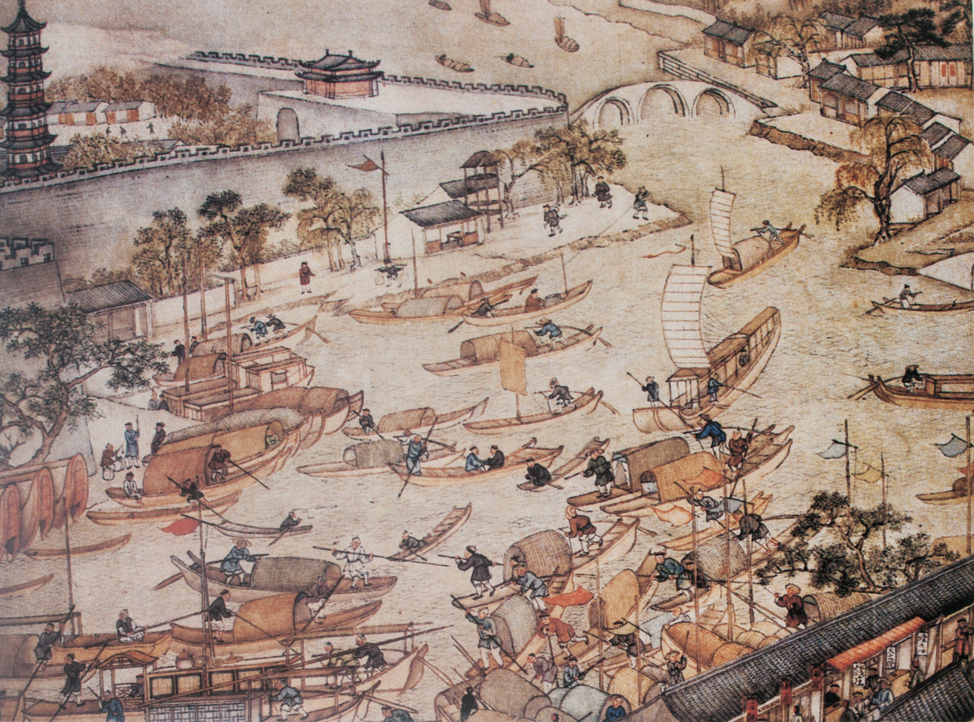 Detail of scroll about Suzhou made on the order of Emperor Qianlong